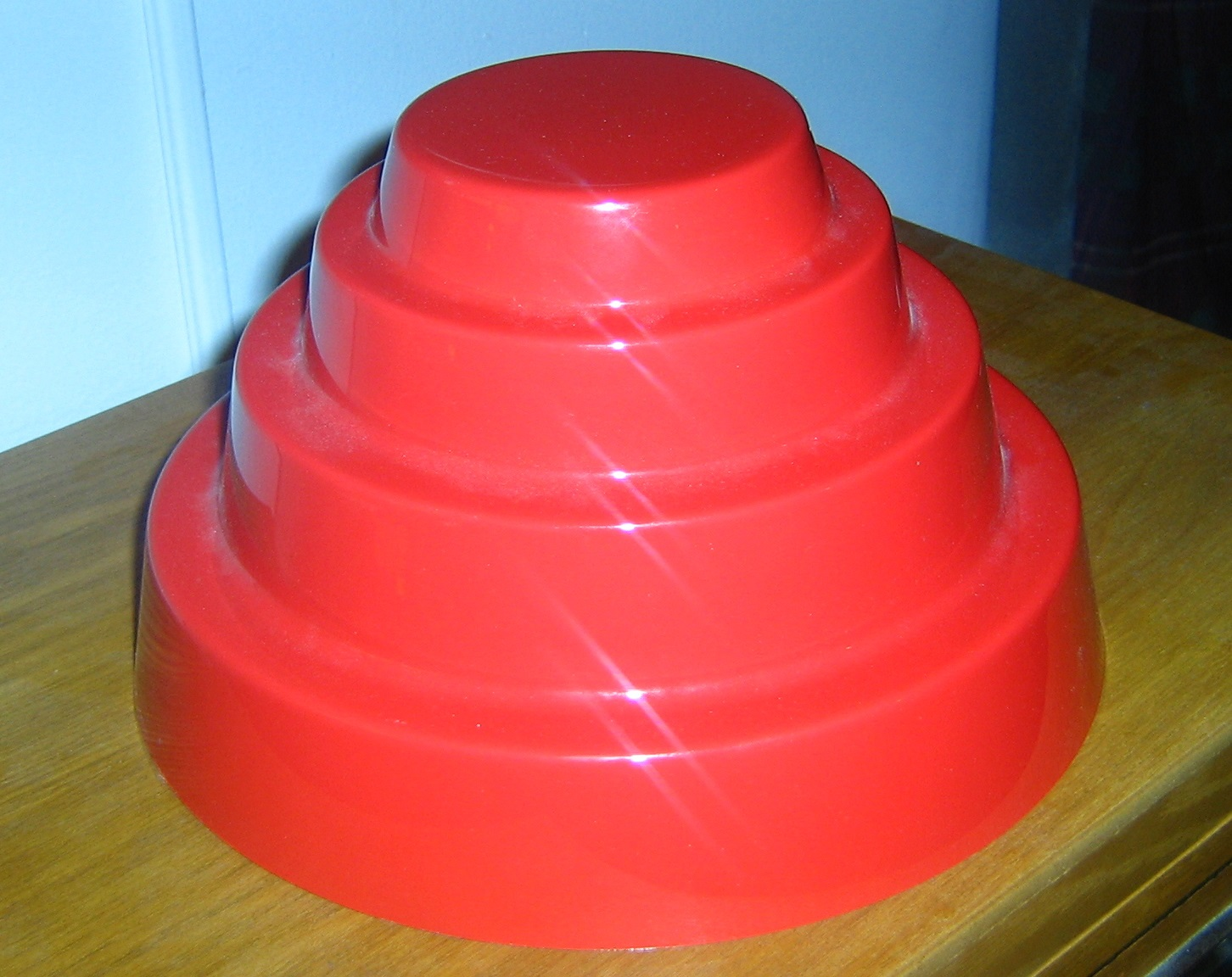 Devo Energy dome, 2008 version by FDOS Design.